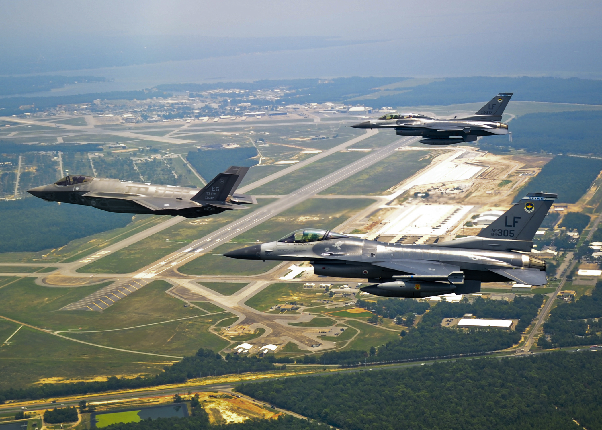 The Department fo Defense's first U.S. Air Force F-35 Lightning II joint strike fighter (JSF) aircraft soars past the 33rd Fighter Wing flight line with two Air Force F-16 Fighting Falcon fighter aircraft before landing at its new home at Eglin Air Force Base, Fla., July 14, 2011. Its pilot, Lt. Col. Eric Smith of the 58th Fighter Squadron, is the first Air Force qualified JSF pilot.